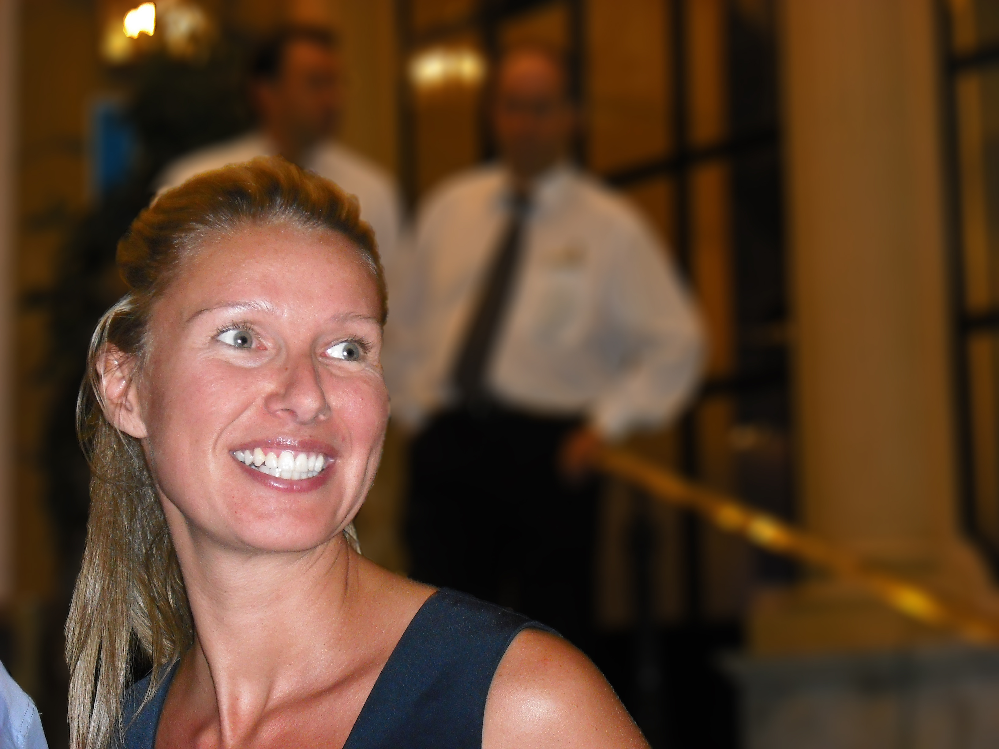 Anne Igartiburu in San Sebastián